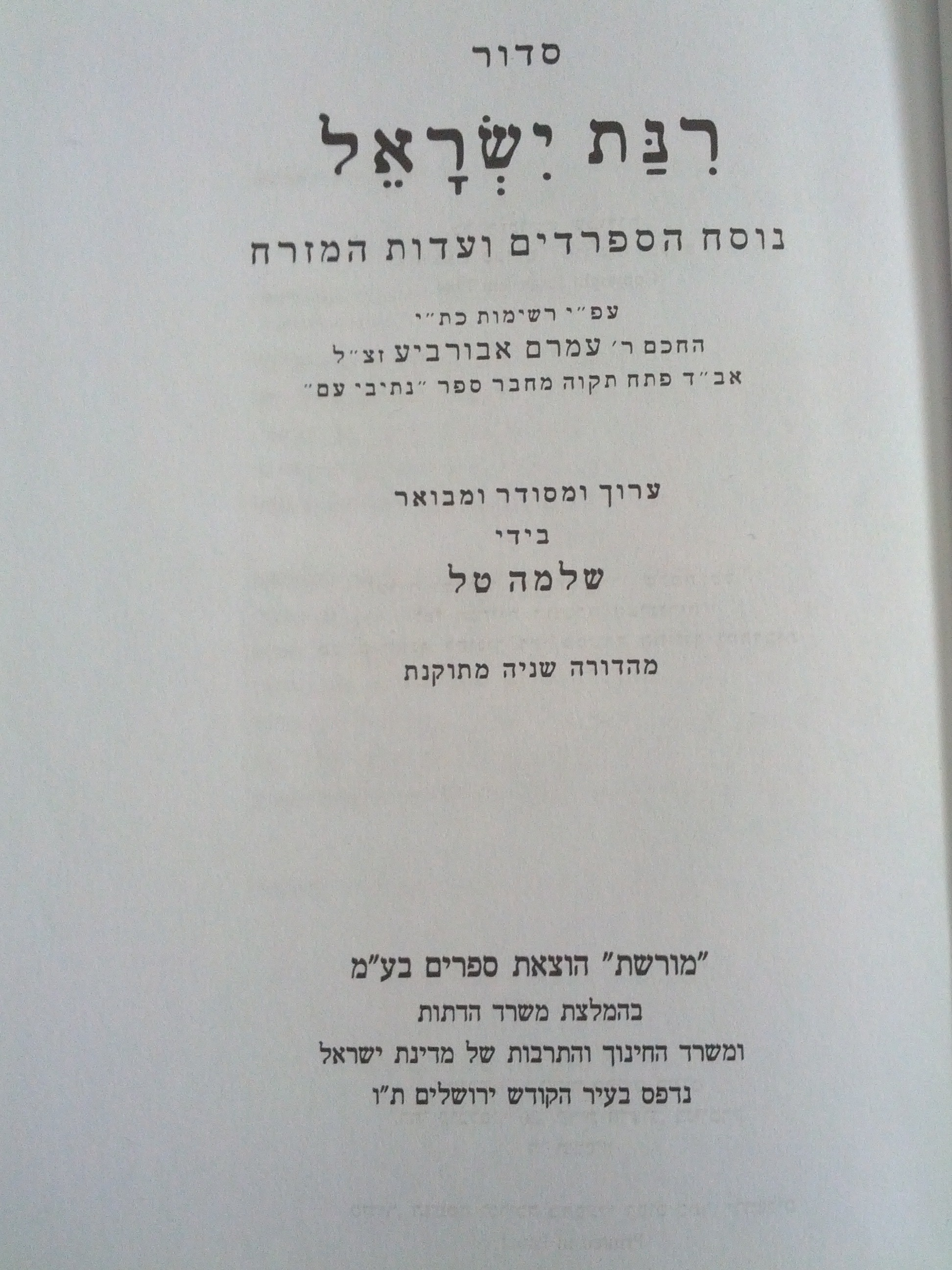 First page of Siddur Rinat Israel Ha'Sfaradim Ve'Edot Ha'Mizrach nussach, (version) according to writings by Rabbi Amram Aburbeh, Head of Petah Tikva Bet Din, author of "Netivei Am", Jerusalem 1984 , second edition